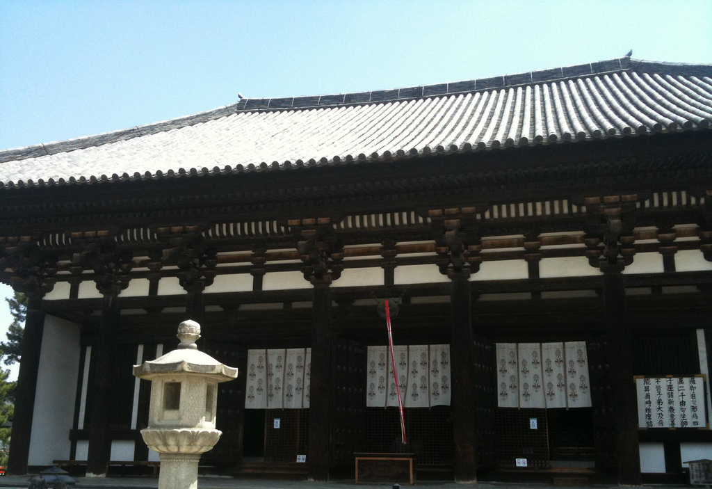 The Eastern Golden Hall or Tokondo (東金堂) of Kofukuji Temple in Nara, Japan. The Central and Western Golden Halls were destroyed in the past from warfare, and not rebuilt, so this is the only remaining of the three.